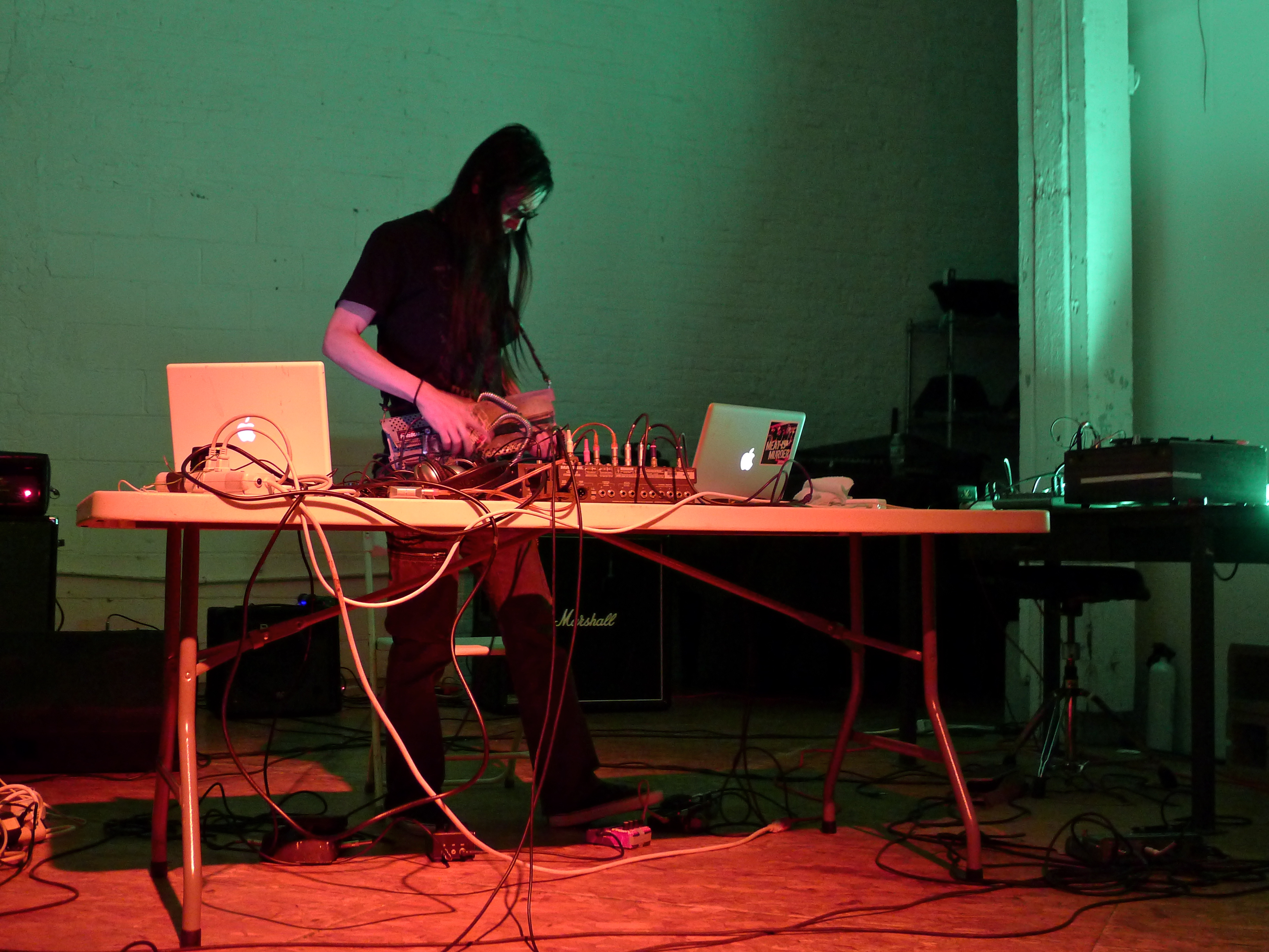 Merzbow performing live on September 23, 2010 at ISSUE Project Room in New York City.